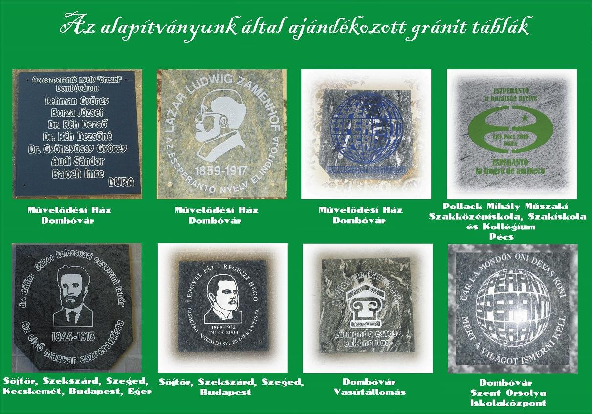 South Transdanubian Regional Esperanto Foundation gift plaques